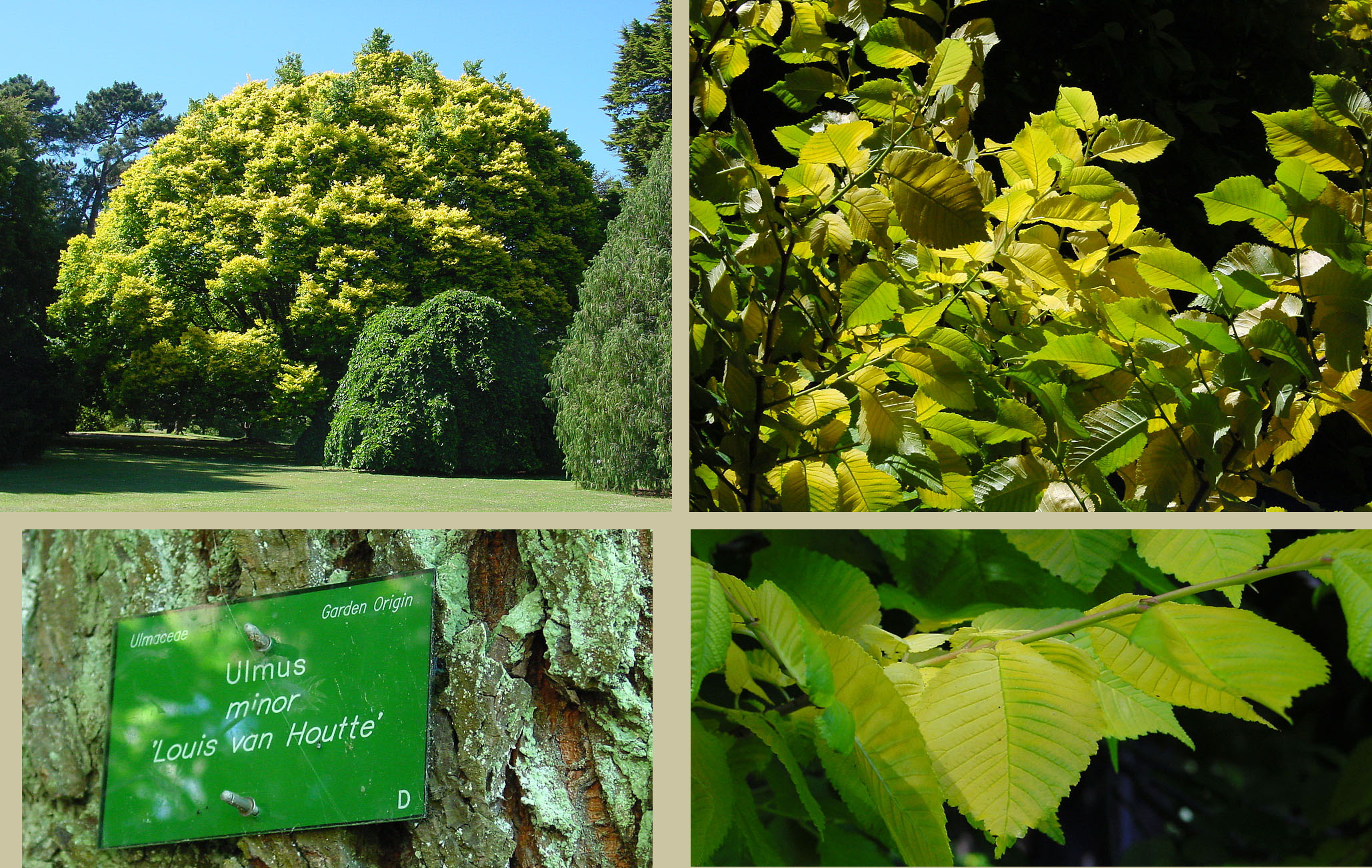 The Field Elm 'Louis van Houtte' in the botanic garden in Christchurch, New Zealand.